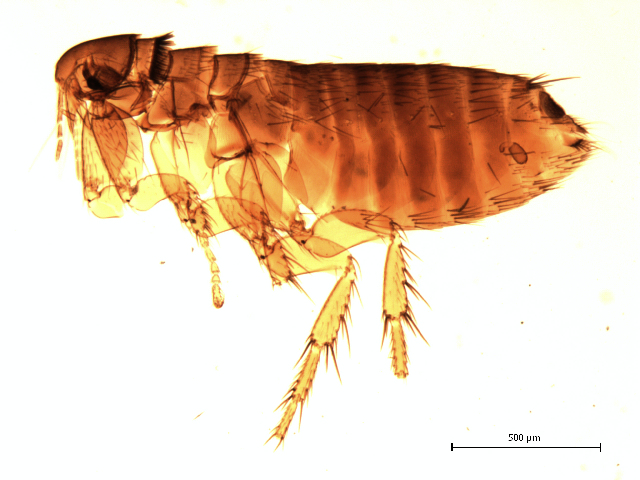 Megabothris asio